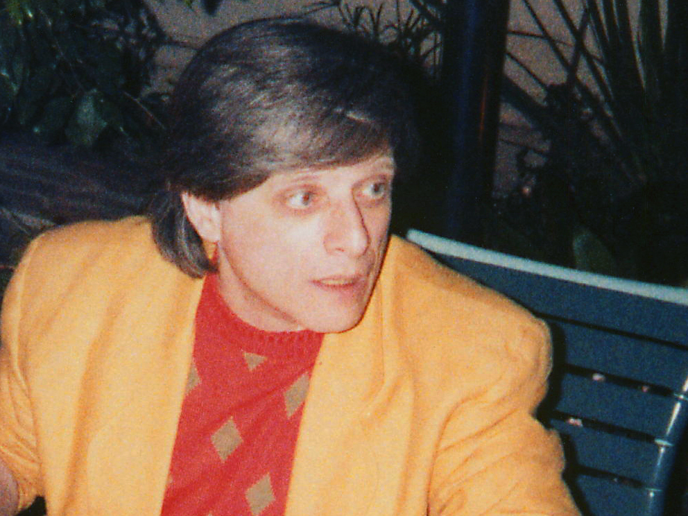 Harlan Ellison at the Harlan Ellison Roast. L.A. Press Club July 12, 1986. Los Angeles , California.